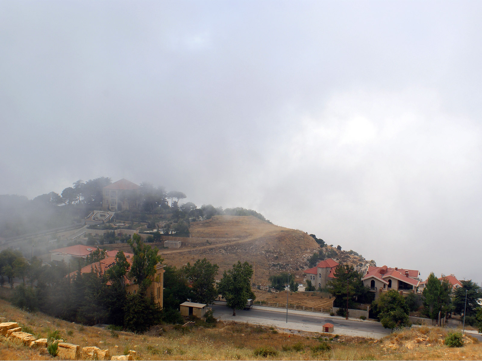 The afternoon mist was invading almost everything , well just before i was able to capture these wonderful villas view